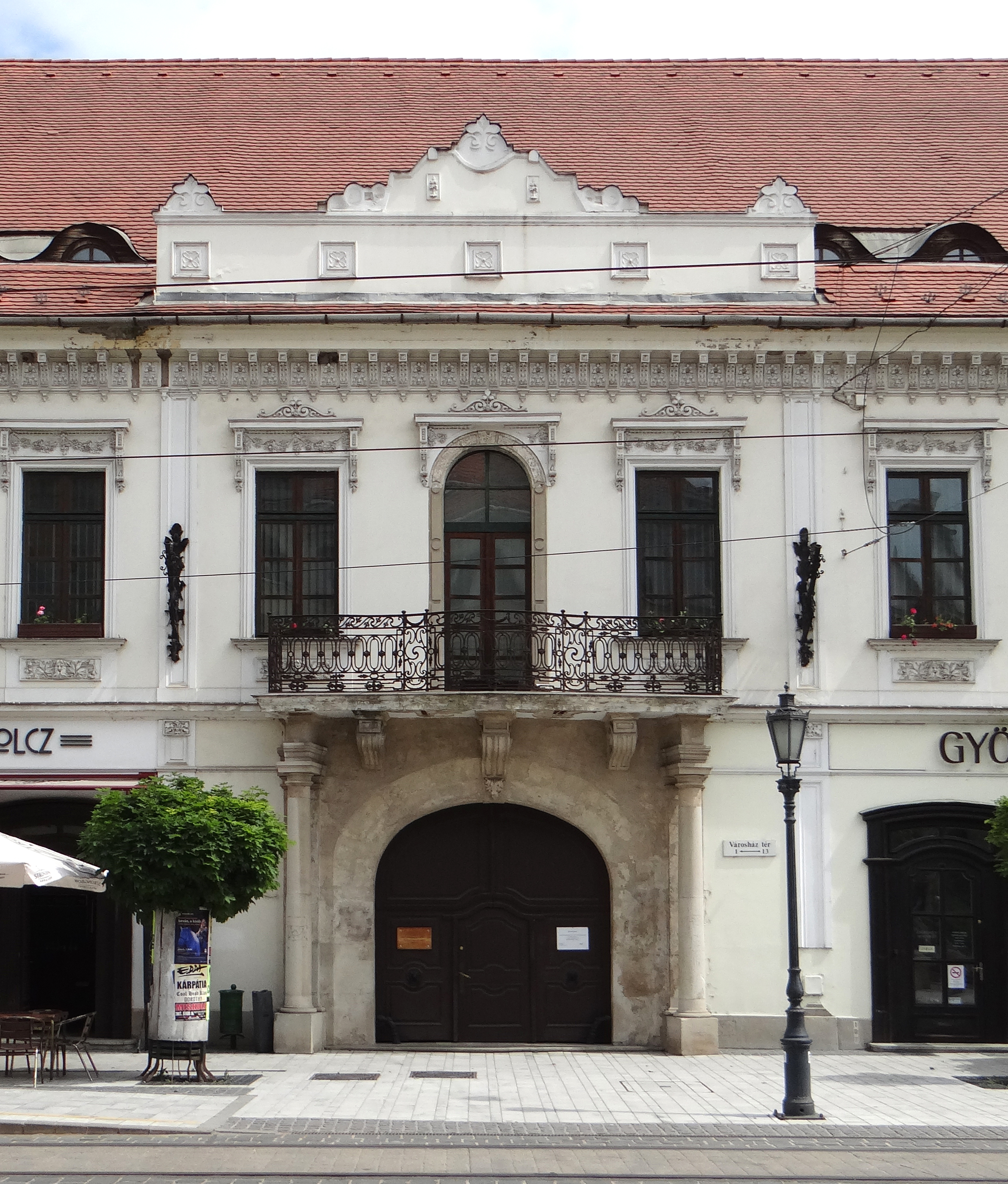 Almássy Mansion, 13 Városház Square, Miskolc, Hungary